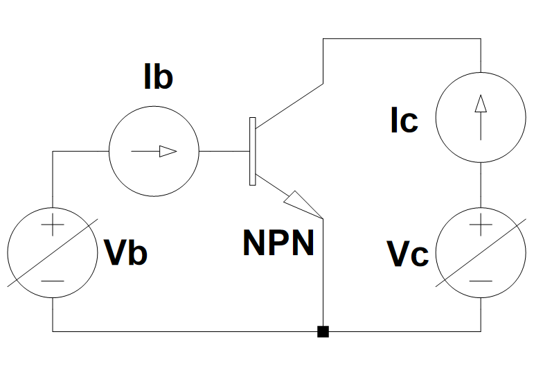 Setup for measurement of a transistor